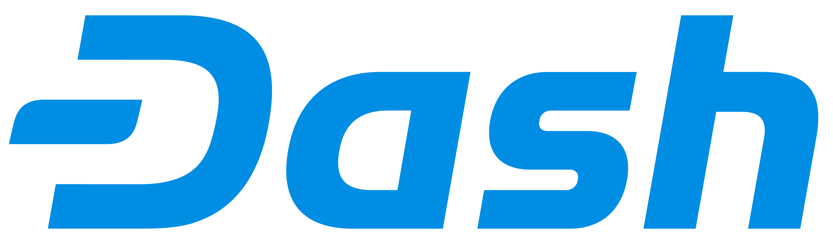 Dash logo 2018 rgb for screens